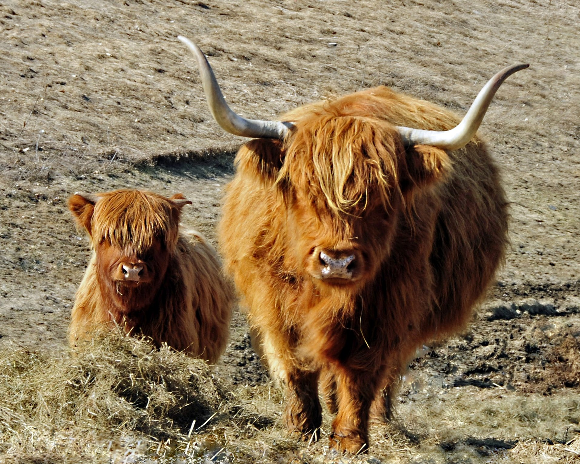 Highland Cow (not a bull!) and Calf